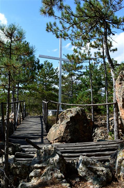 Raska Municipality - Rudnica